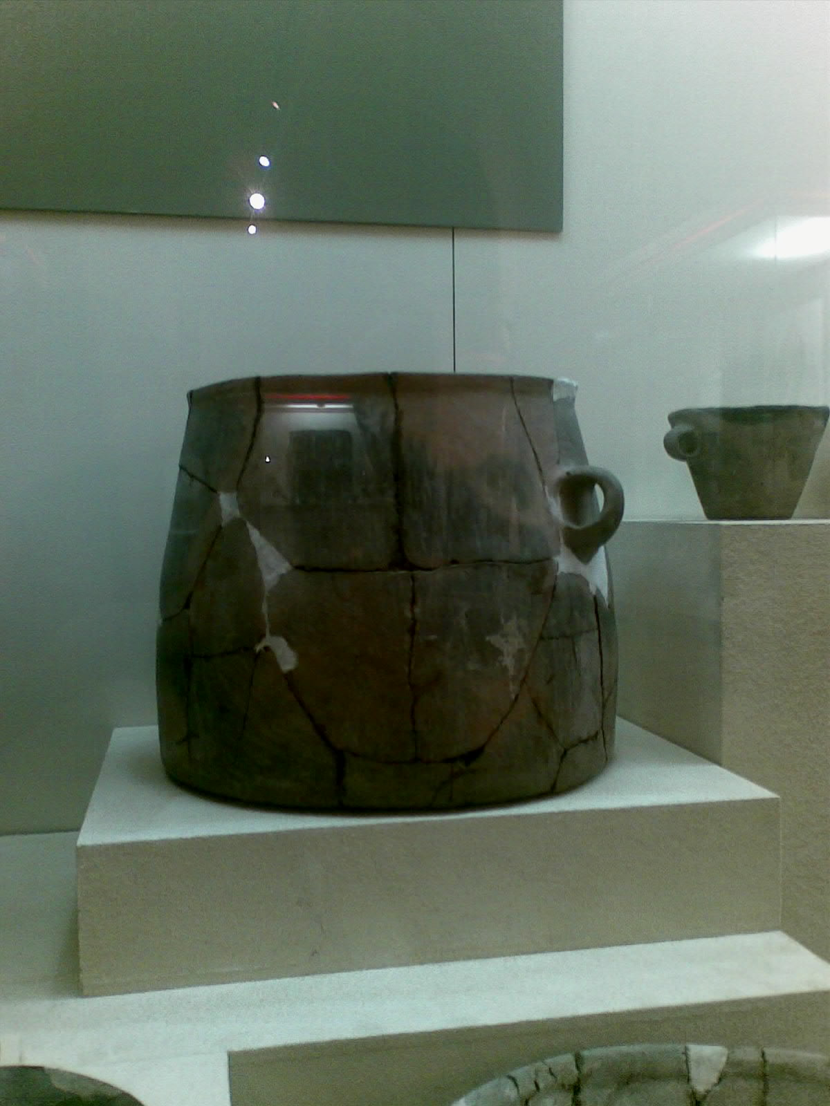 Clay container found in the dwelling, Babadervish, Azerbaijan. Azerbaijan National History Museum